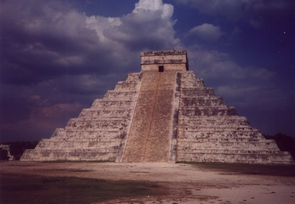 larger image of my photo of the west side of the temple of kukulcan taken may 1997